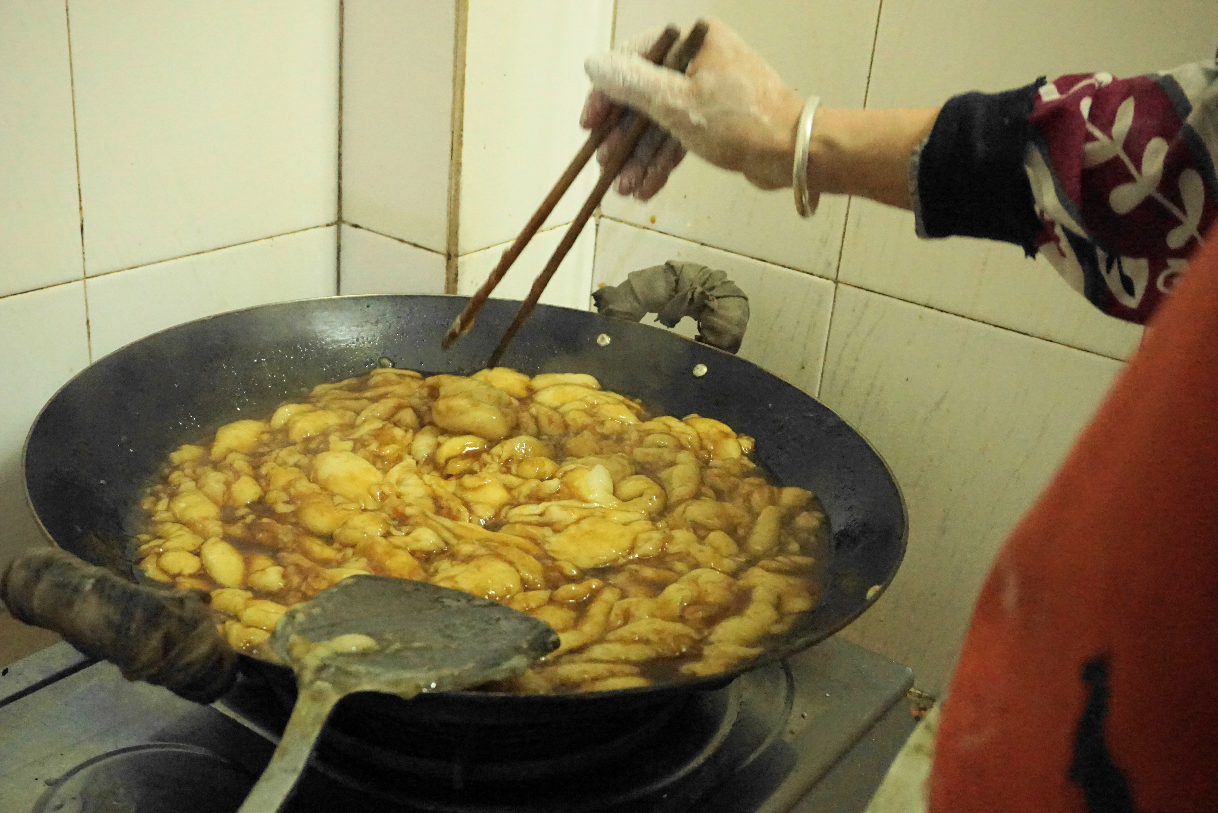 "Mother" doughs are cooking in boiled brown sugar, as a step making imprint black sesame rice cake, a folklore cuisine in some regions of Guangdong (Canton) and Guangxi. This photo has been taken in the country: China